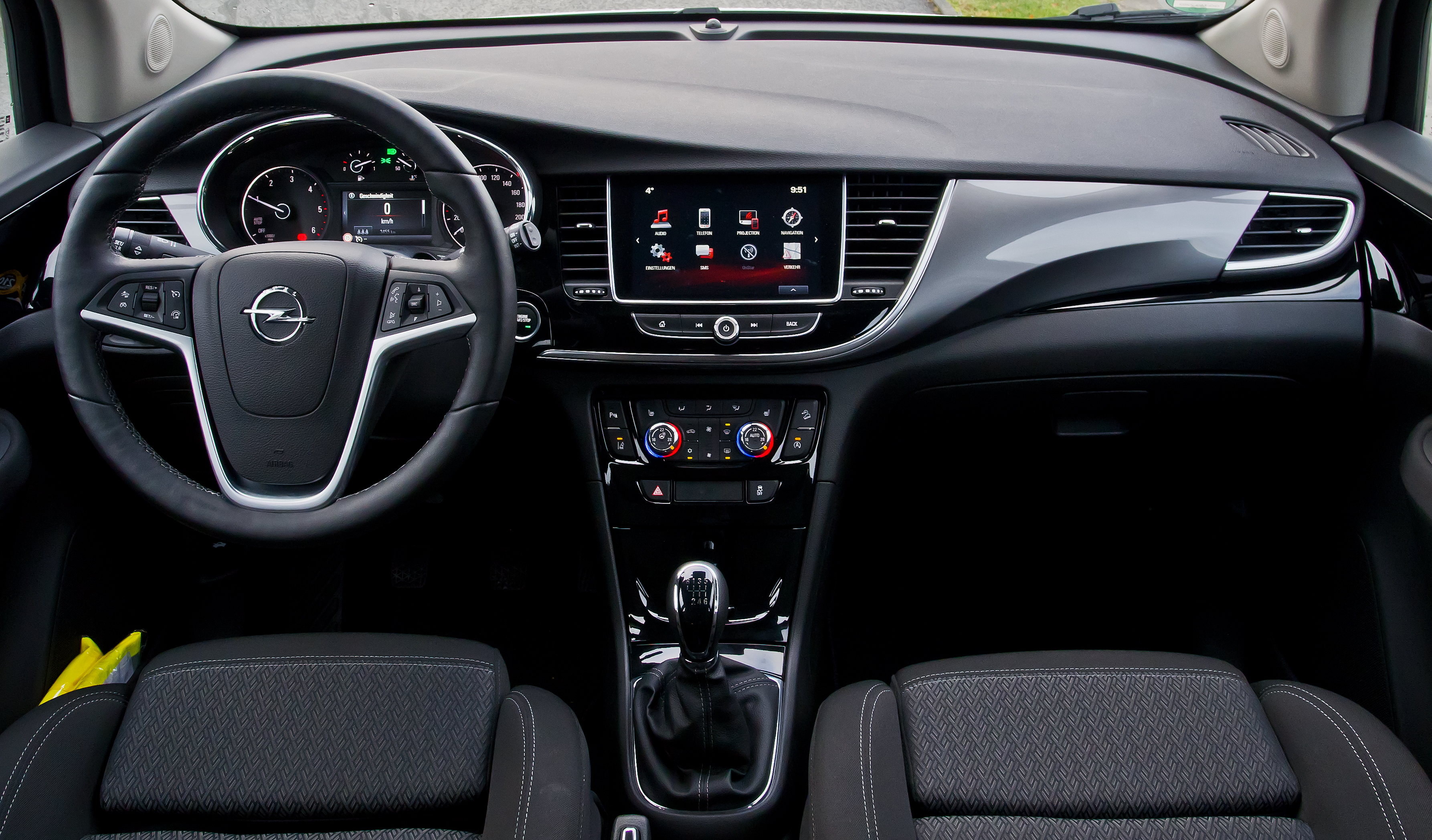 Opel Mokka X 1.6 CDTI ecoFLEX 4x4 Edition (Facelift)